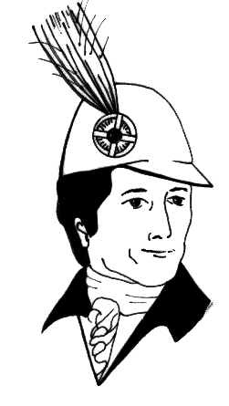 line art drawing of an aigrette, cleaned up by Micze